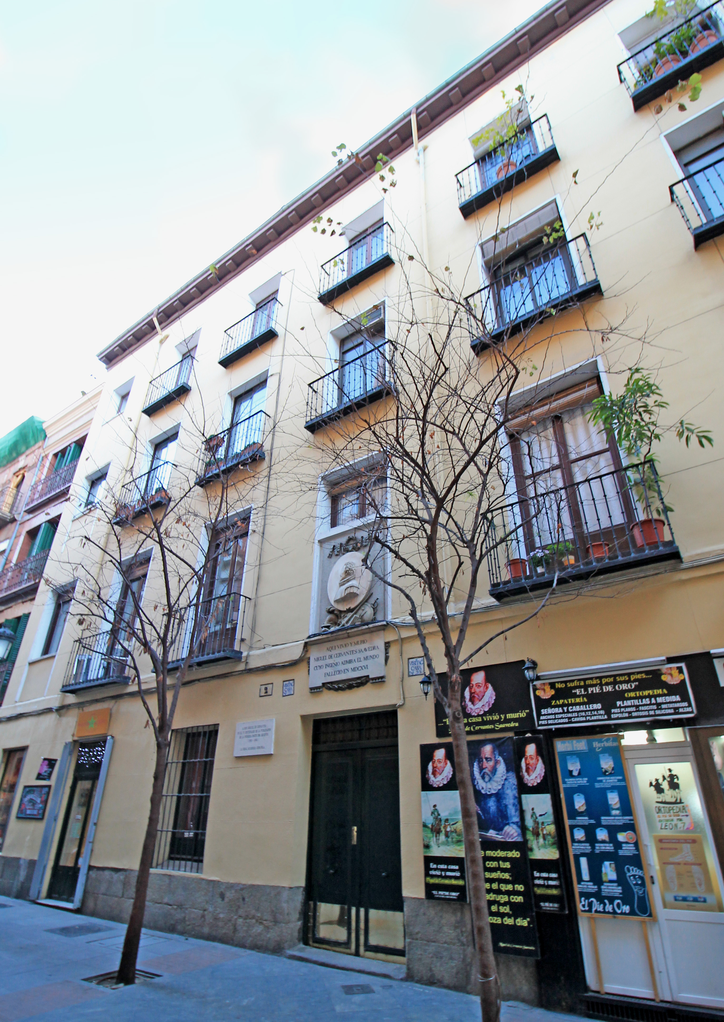 Housing building at 2nd Calle de Cervantes (street) in Madrid (Spain). Writer Miguel de Cervantes lived some years and died in this place.